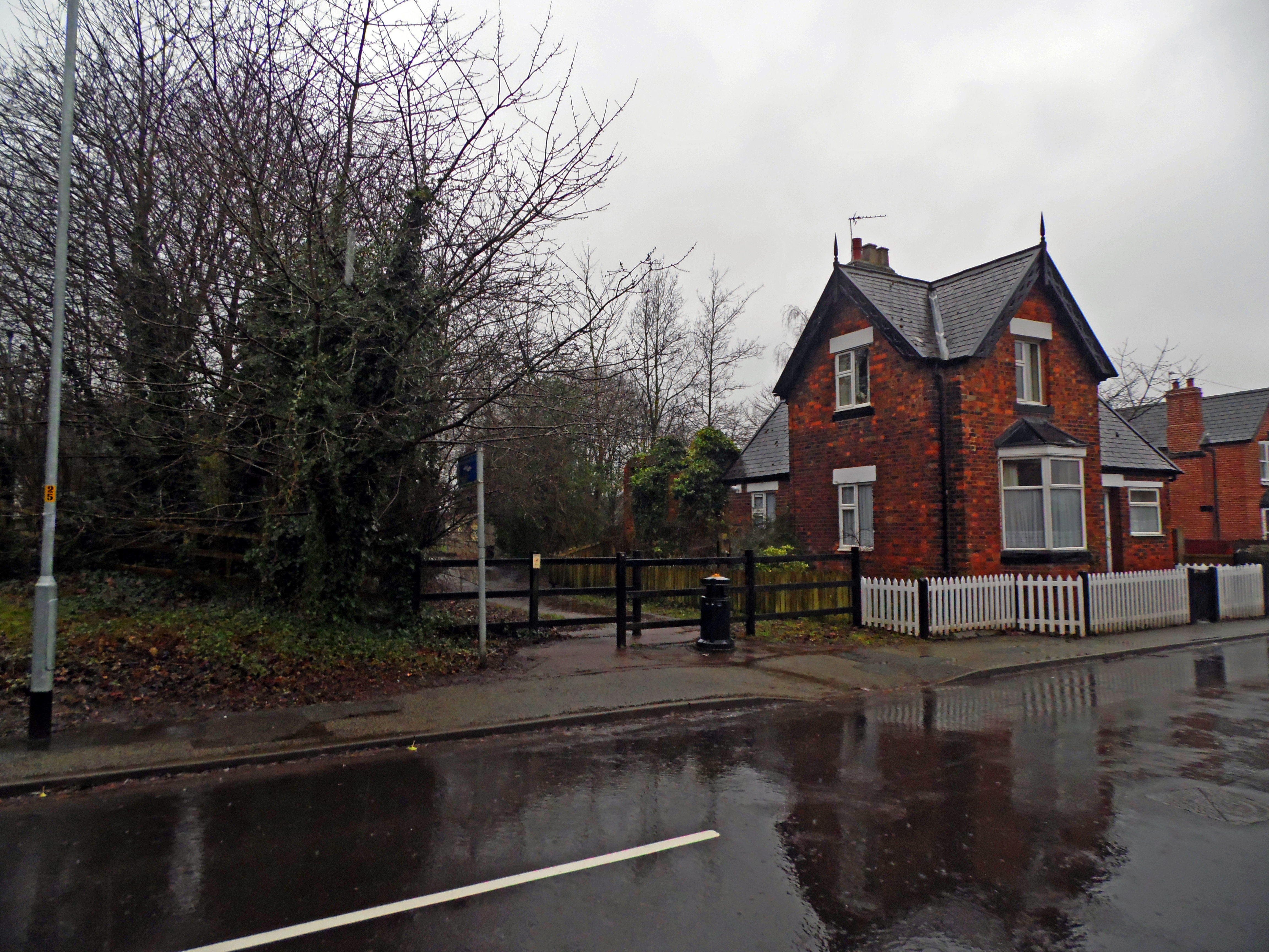 The track and platforms have gone, but the station building still remains and to the back of the building, the entrance way to stairs and bridge that once span the two platforms is still partially there.